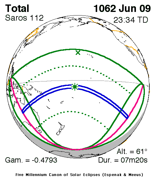 "Eclipse Predictions by Fred Espenak, NASA/GSFC". Prediction for 09 June, 1062